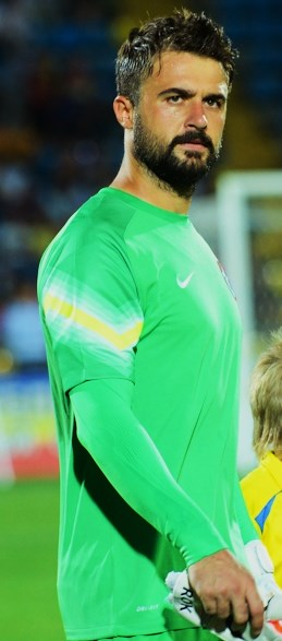 Onur Kıvrak